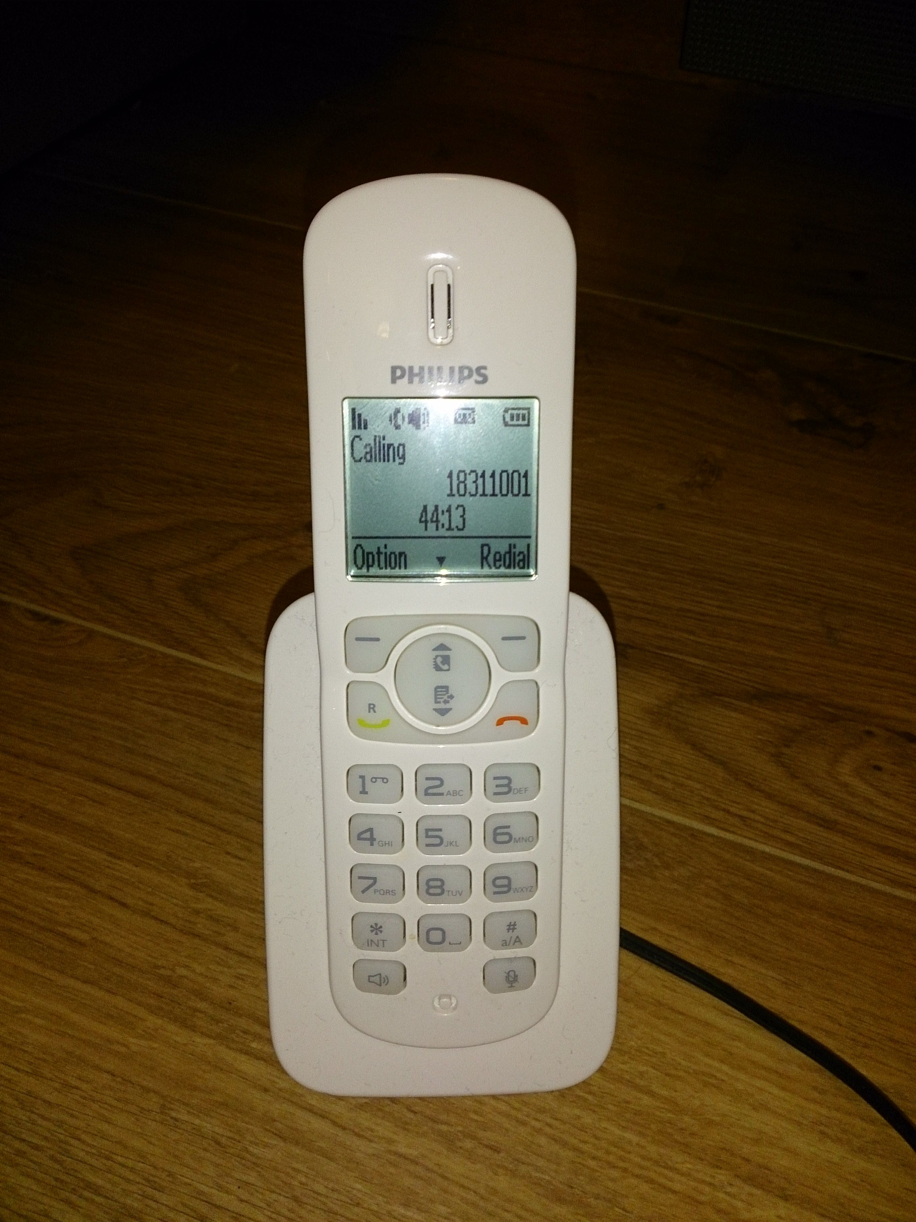 Using a speaker phone to listen to a Hong Kong based internet radio station D100 via fixed telephone line.